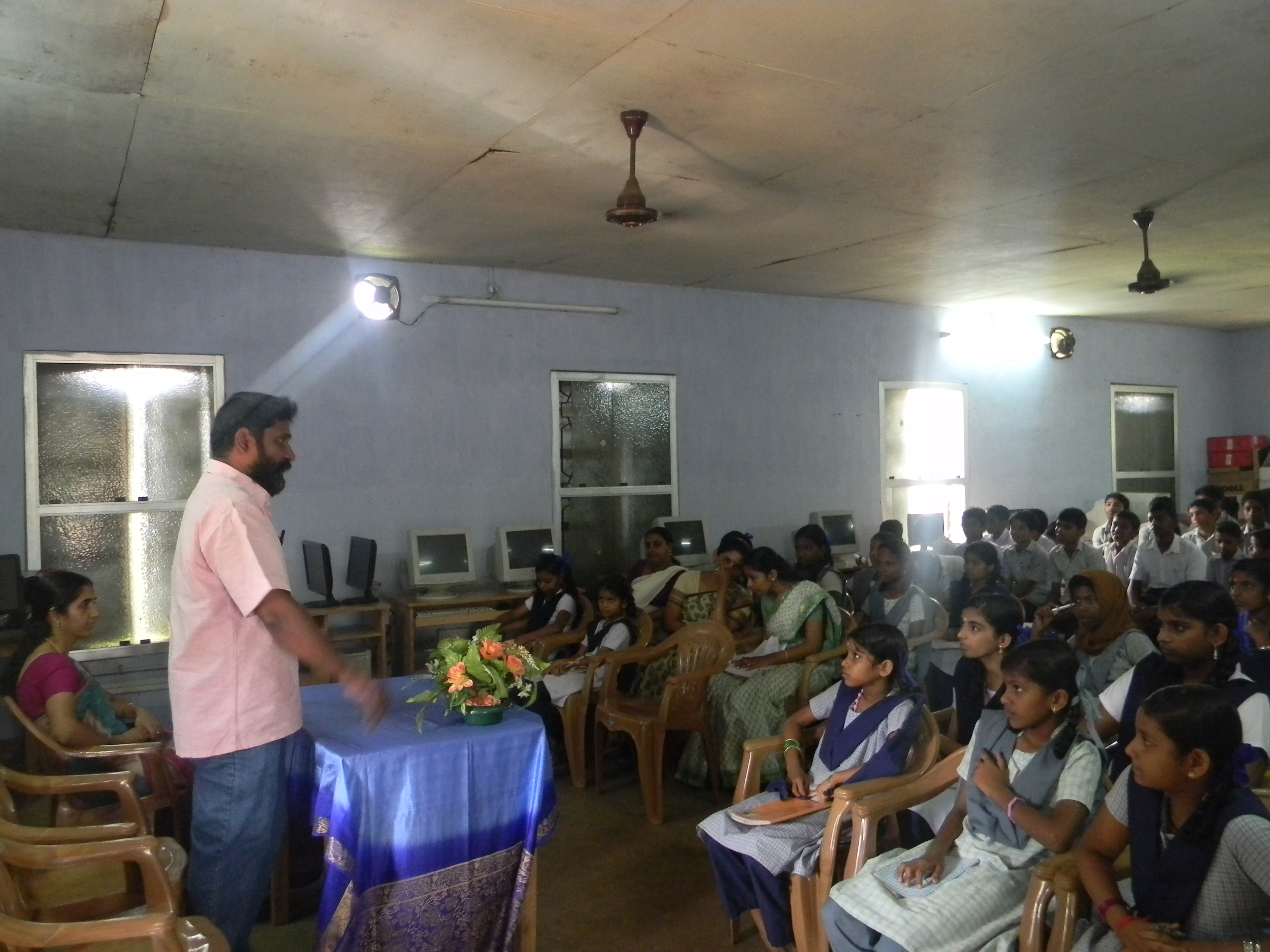 AKMHSS Poochatty school script coaching photo